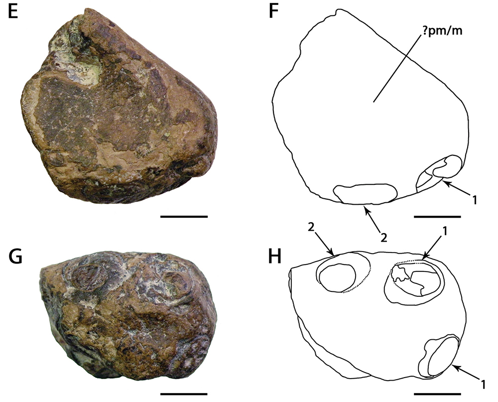 E–H Ornithocheirus eurygnathus, holotype CAMSM B54644 (Albian, Cambridge Greensand), anterior part of the rostrum E ?right lateral view F respective line drawing G ?ventral view H respective line drawing. Abbreviations: m – maxillae, pm – premaxillae. Arrows and numbers indicate alveoli or teeth and their respective position. Scale bar = 10 mm.